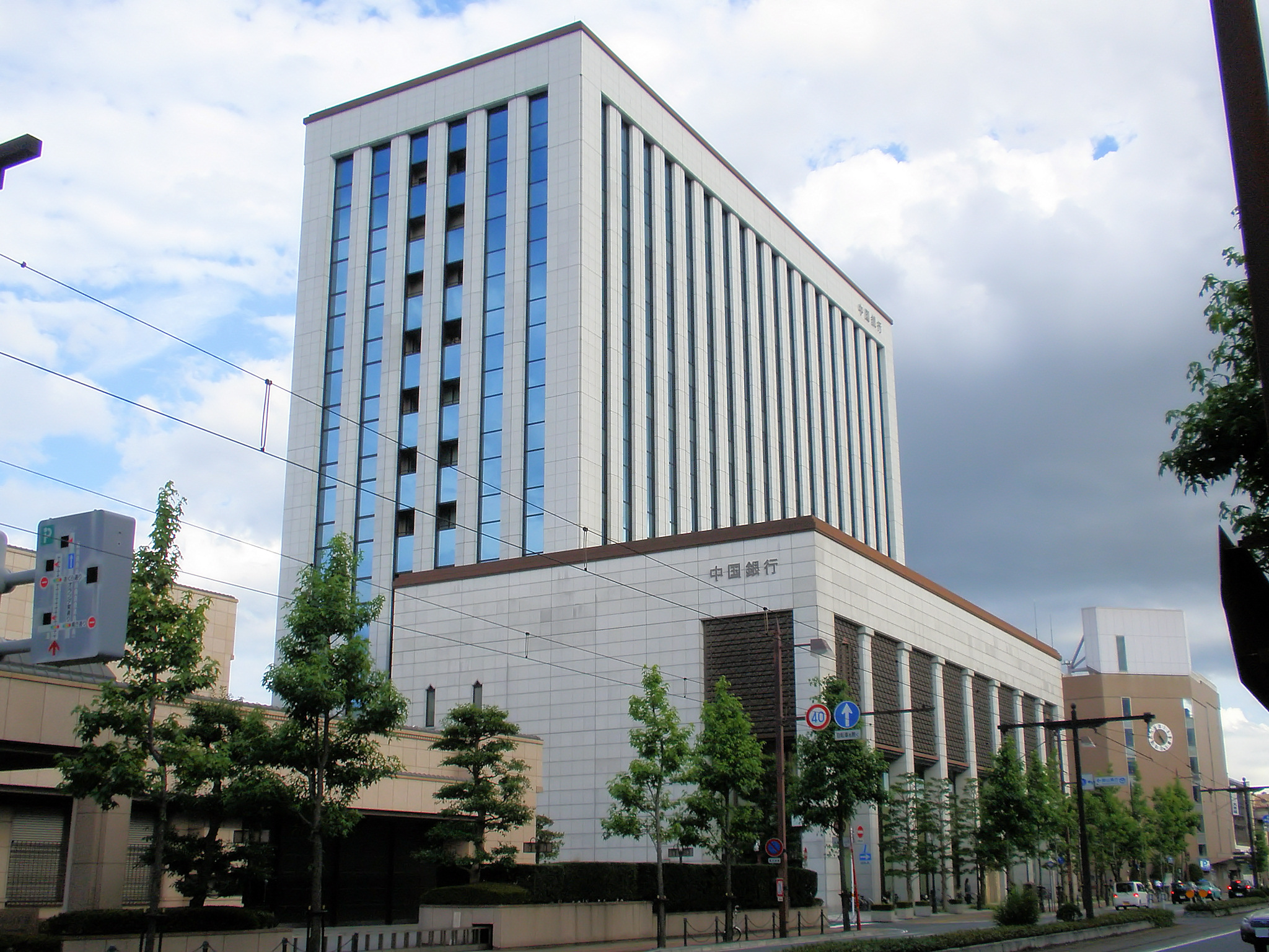 Chugoku Bank head store, Okayama, Japan.